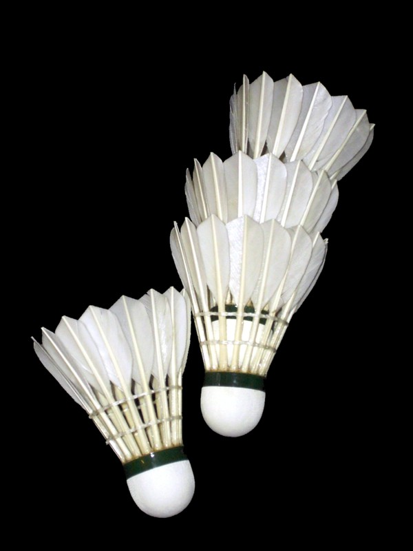 Badminton shuttlecocks Yonex Aerosensa 20